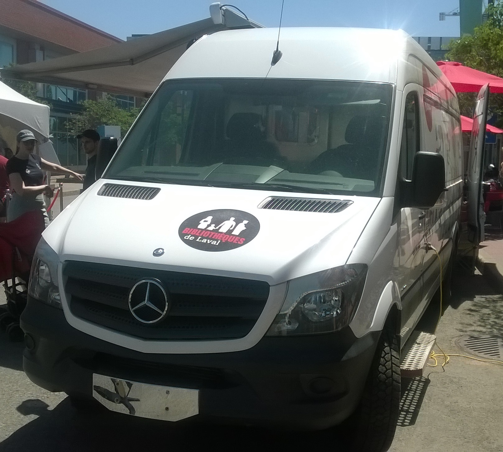 Mercedes-Benz Sprinter Laval Librairies photographed in Laval, Québec, Canada at the Grande Fête des pompiers Laval 2018.